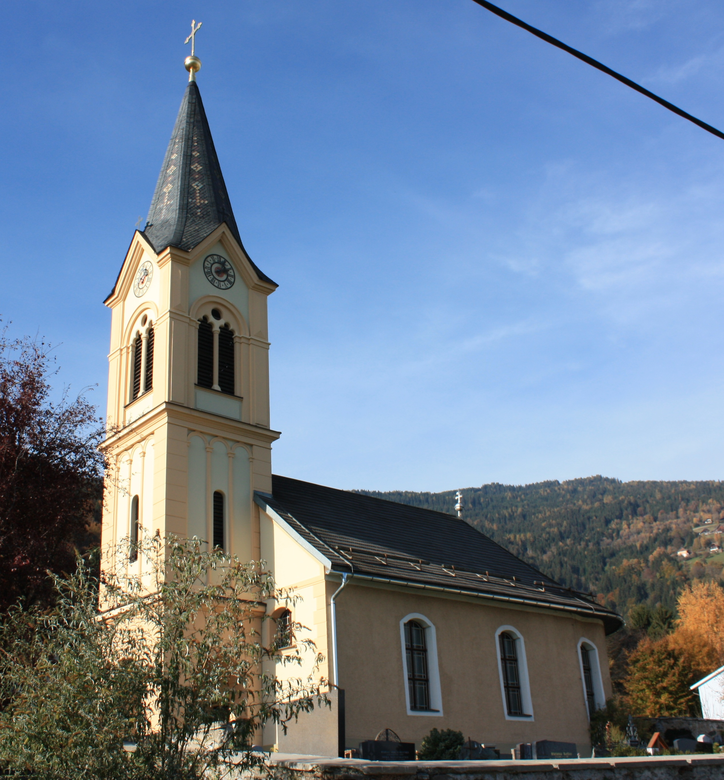 Lutherian church Locality: Tschöran Community:Steindorf am Ossiacher See